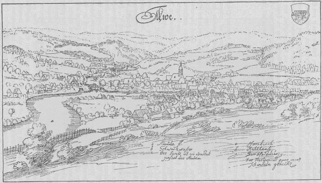 Aue, Saxony, ca. 1628.